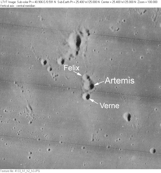 Moon craters Felix, Artemis and Verne. Detail from Lunar Orbiter IV-133H. High resolution scans from the USGS Lunar Orbiter Digitization Project remapped to a north-up aerial view by LTVT.